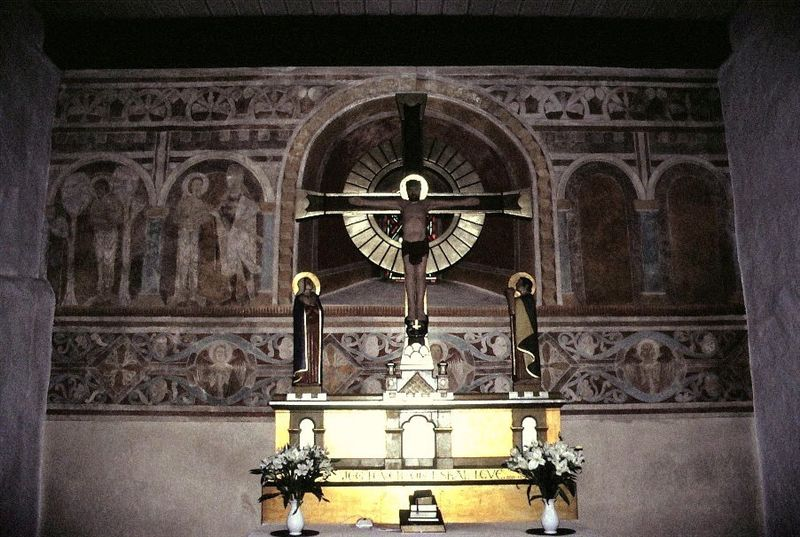 Give Kirke (church)